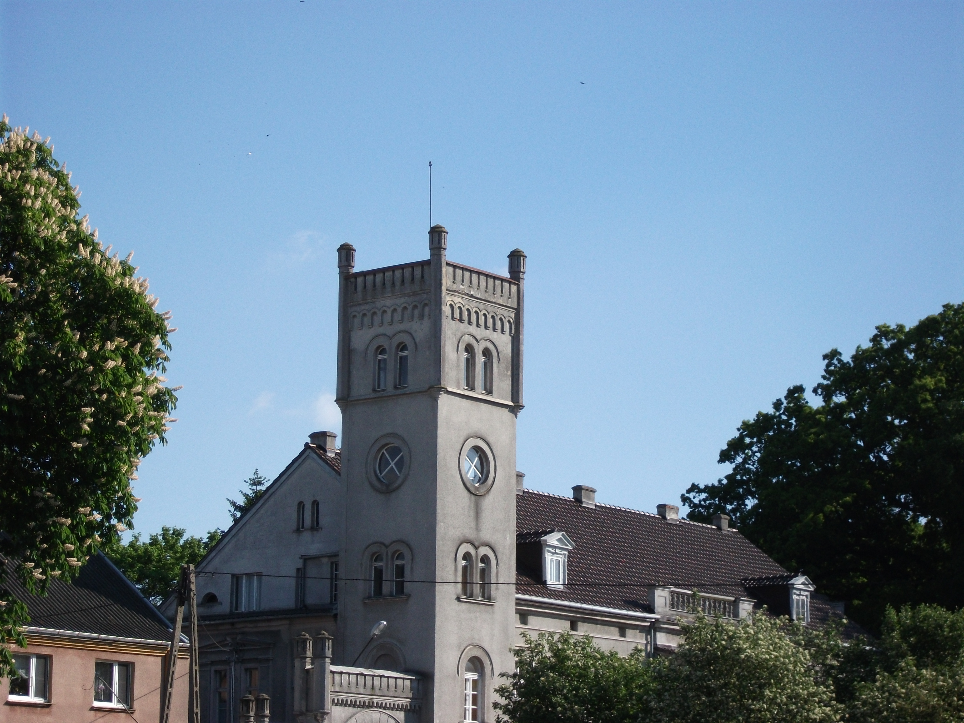 Nowe Jankowice village in Poland